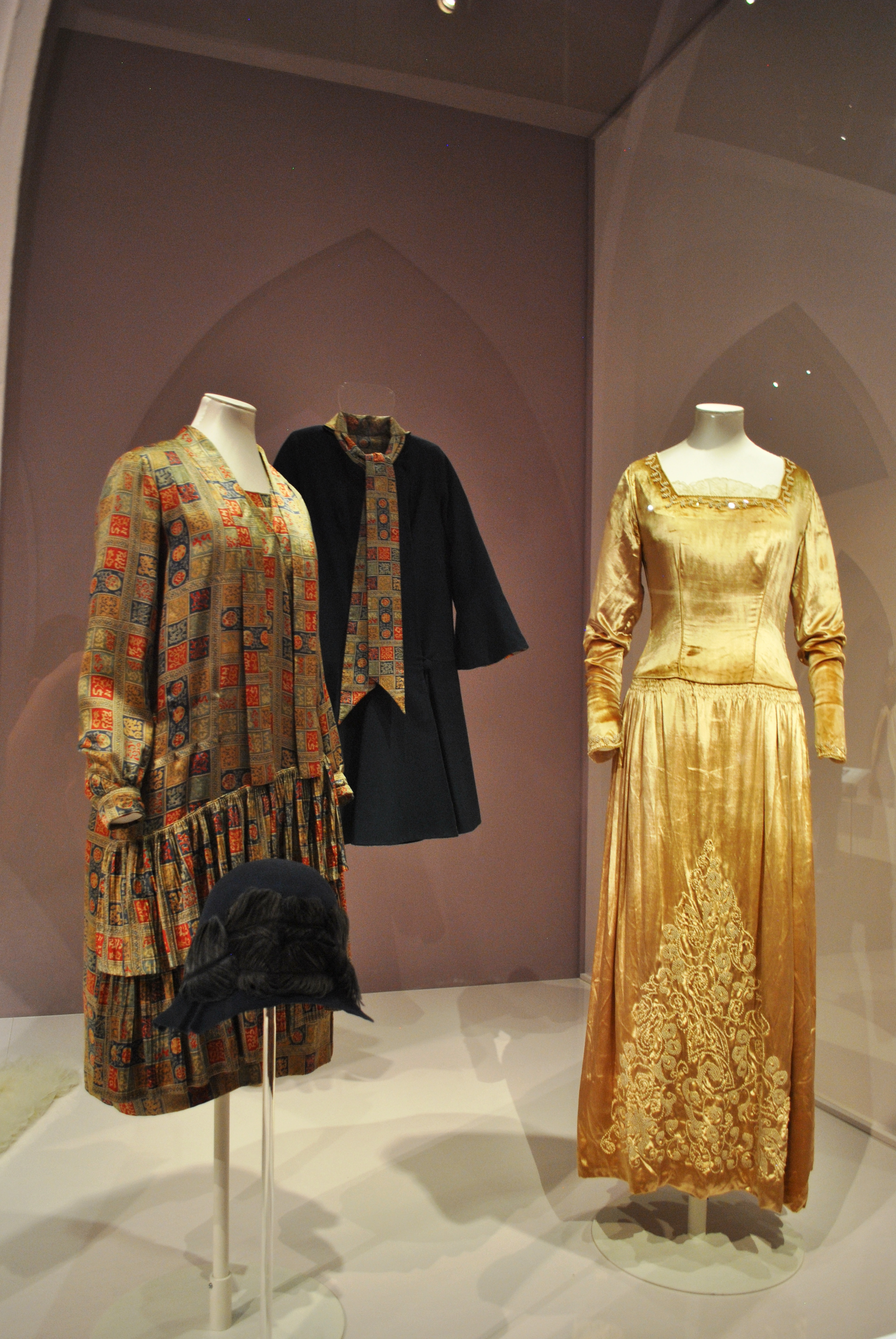 Left and centre: Coat, dress and cloche hat ensemble, printed silk and blue wool, 1928, by Liberty of London, worn by Marian Lasenby to marry William Moorcroft. Right: Gold panne velvet wedding dress, 1927, worn by Maud Cecil to marry Richard Greville Acton Steel.